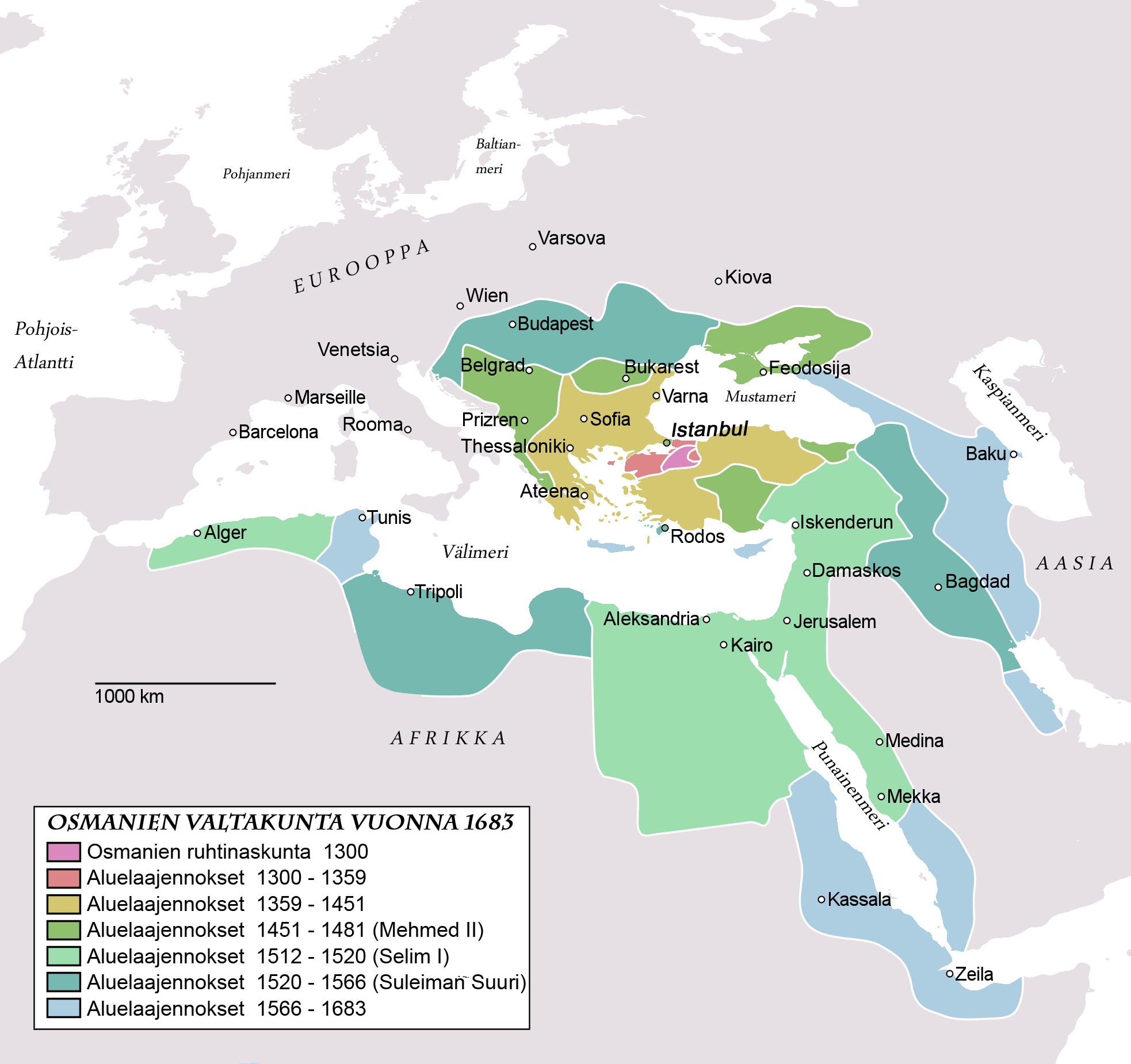 Map of Ottoman Empire in 1683 translated in Finnish.